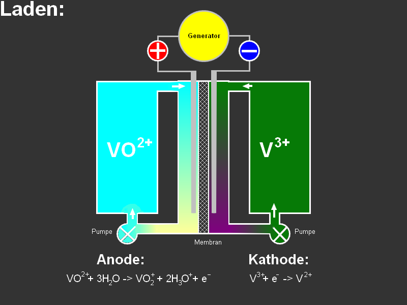 Scheme of a vanadium-redox-flow-cell during the loading process